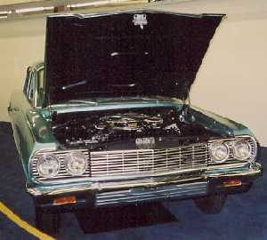 1964 Chevrolet Biscayne with 409 engine, taken in Las Vegas, May, 2002